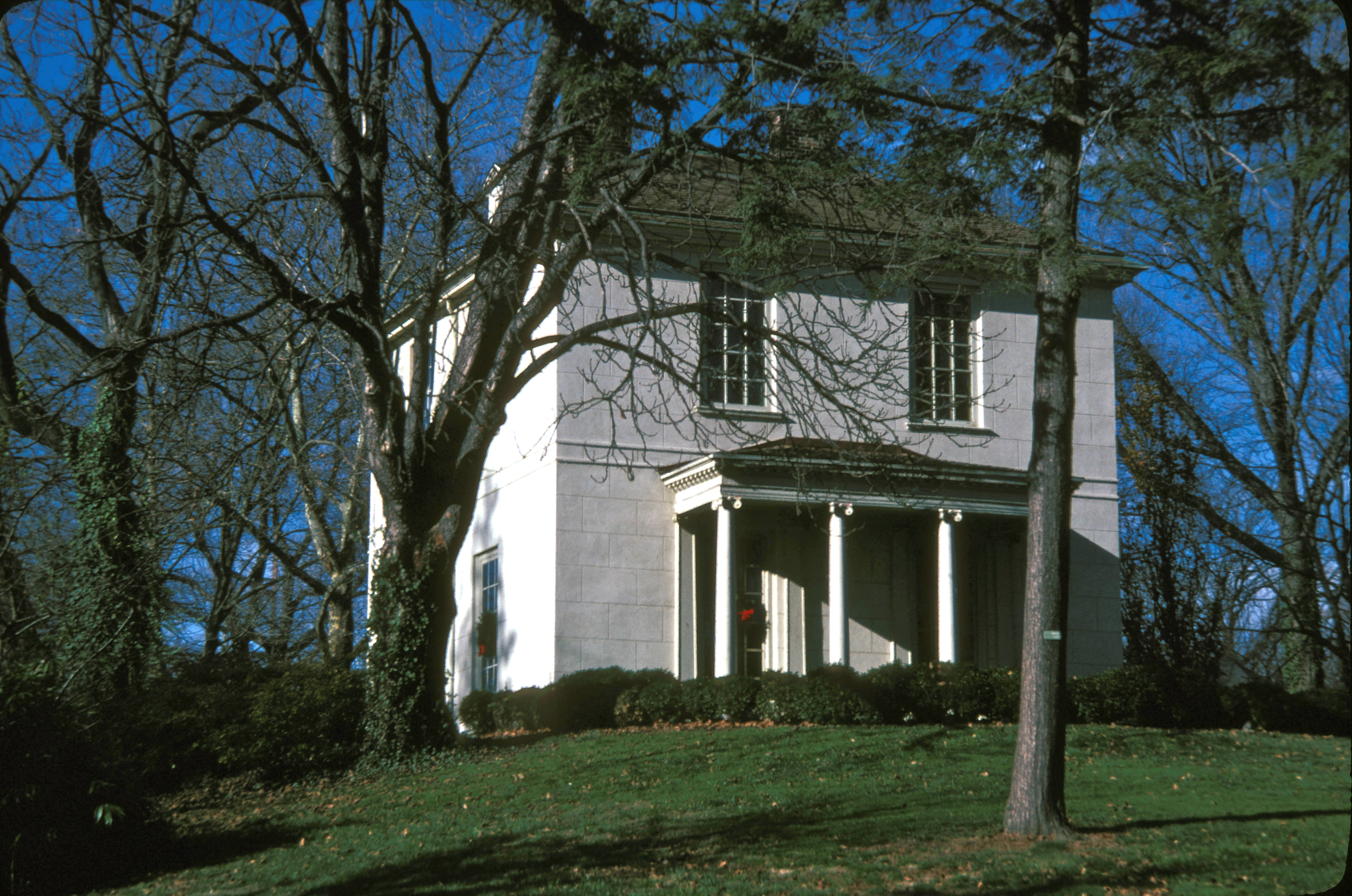 FAIRMOUNT PARK – PHILADELPHIA PARK MANSION OF JOHN PENN, BACHELOR GRANDSON OF WILLIAM PENN; 1785 FEDERAL PERIOD WITH NEO-CLASSICAL PLASTERWORK IN THE CEILING. A contributing building in the NRHP Fairmount Park site, in the Philadelphia Zoo